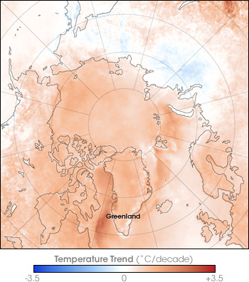 Arctic temperatures from Satellite Data 1981-2007